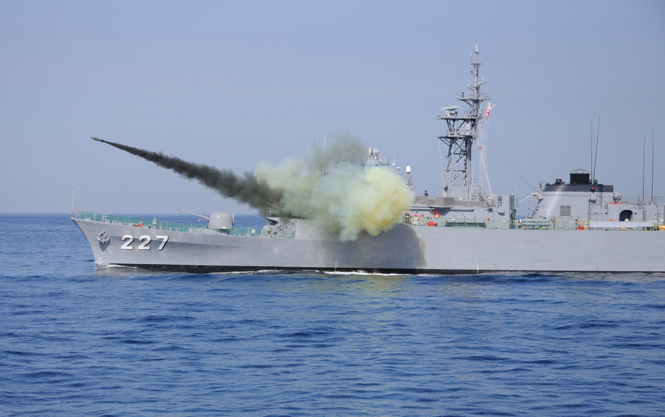 JS Yūbari (DE-227) launches Bofors 375mm Rocket during the SDF Fleet Review 2009 exercise (day 1). Nikon D90 + AF-S DX Nikkor 18-105mm f/3.5-5.6G ED VR